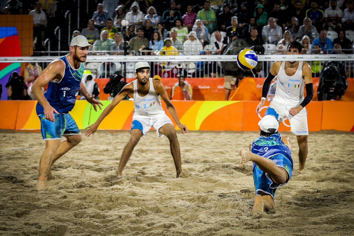 Beach volleyball at the 2016 Summer Olympics. Gold medal game Brazil vs Italy.